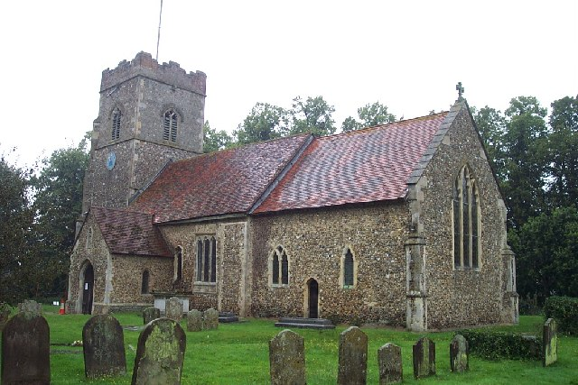 Church of St Peter in Henley, Suffolk, England. A Grade I listed medieval church.